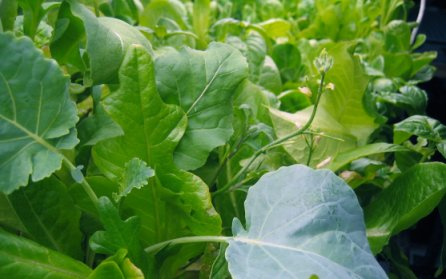 Aeroponics-companion-plantings